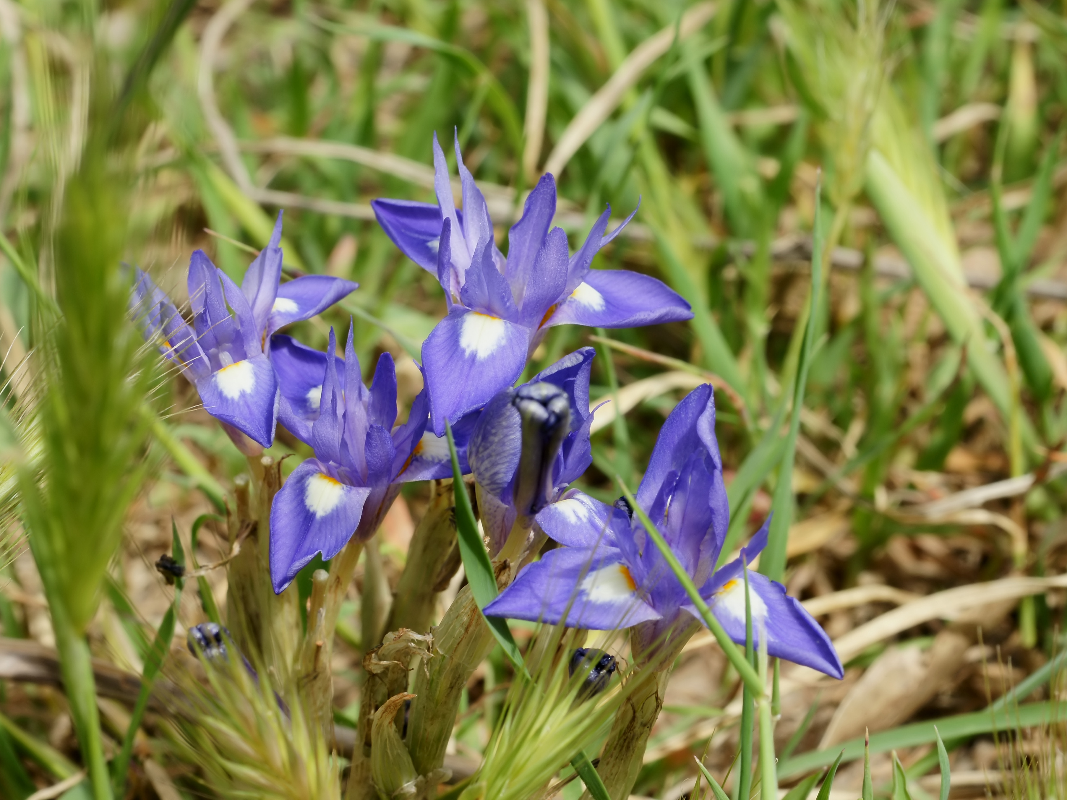 Spanish Nut. Sardinia, Italy